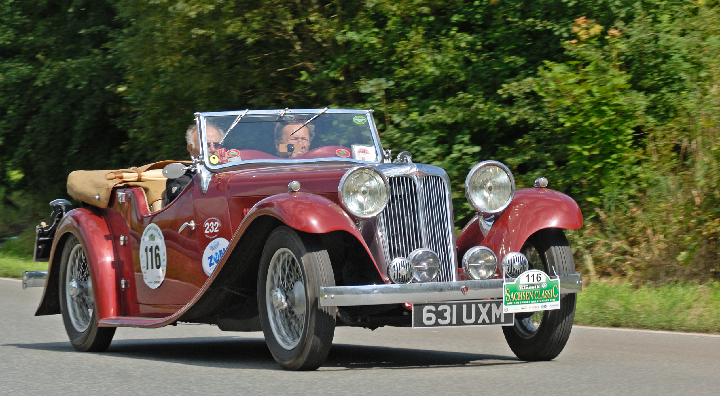 Jaguar SS 1 from 1933 during the Saxony Classic Rallye 2010 (DVLA) first registered 30 June 1933, 2054cc